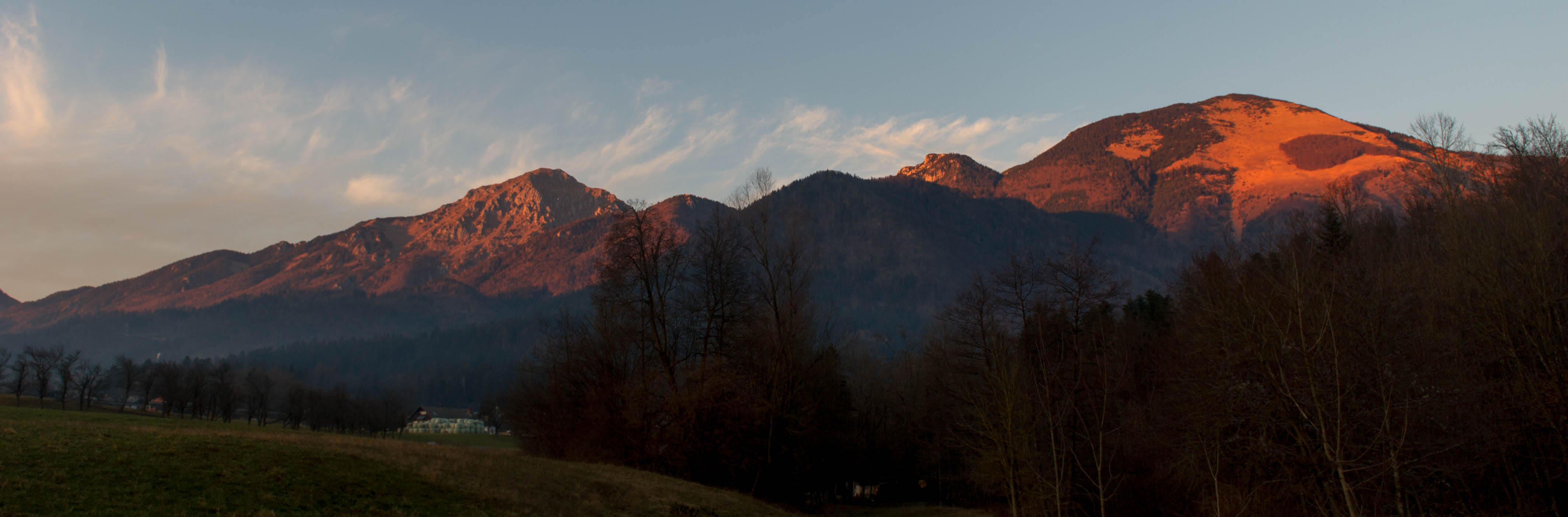 The Zaplata mountain range north of Preddvor